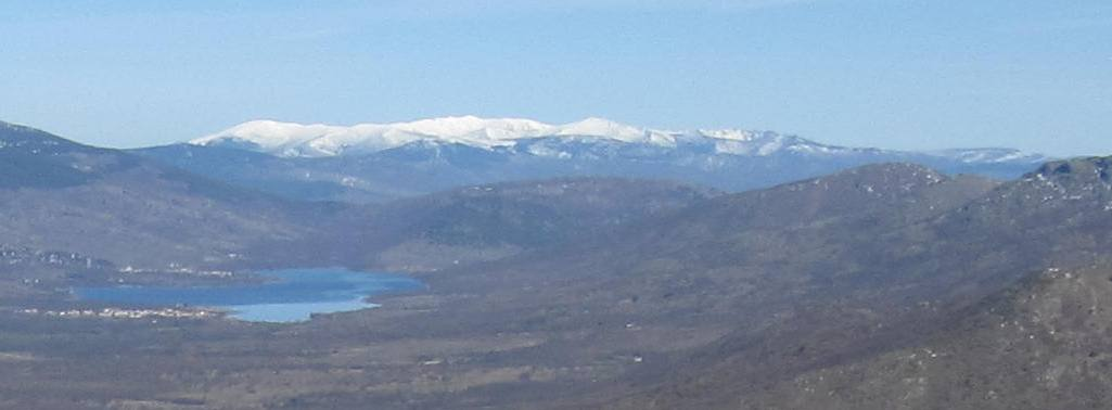 Ayllón mountain range seen from Guadarrama mountain range, Central Spain.